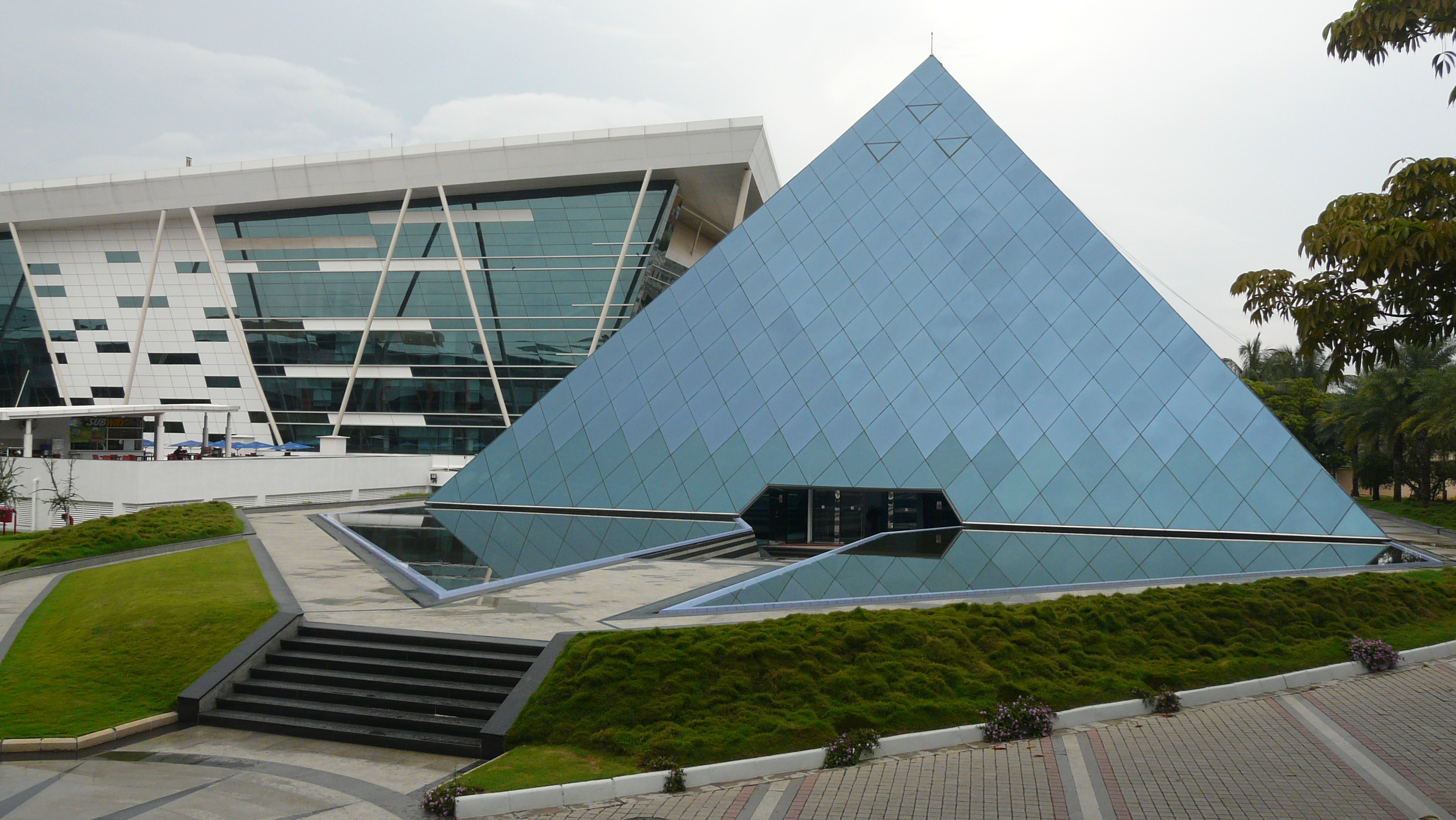 Infosys